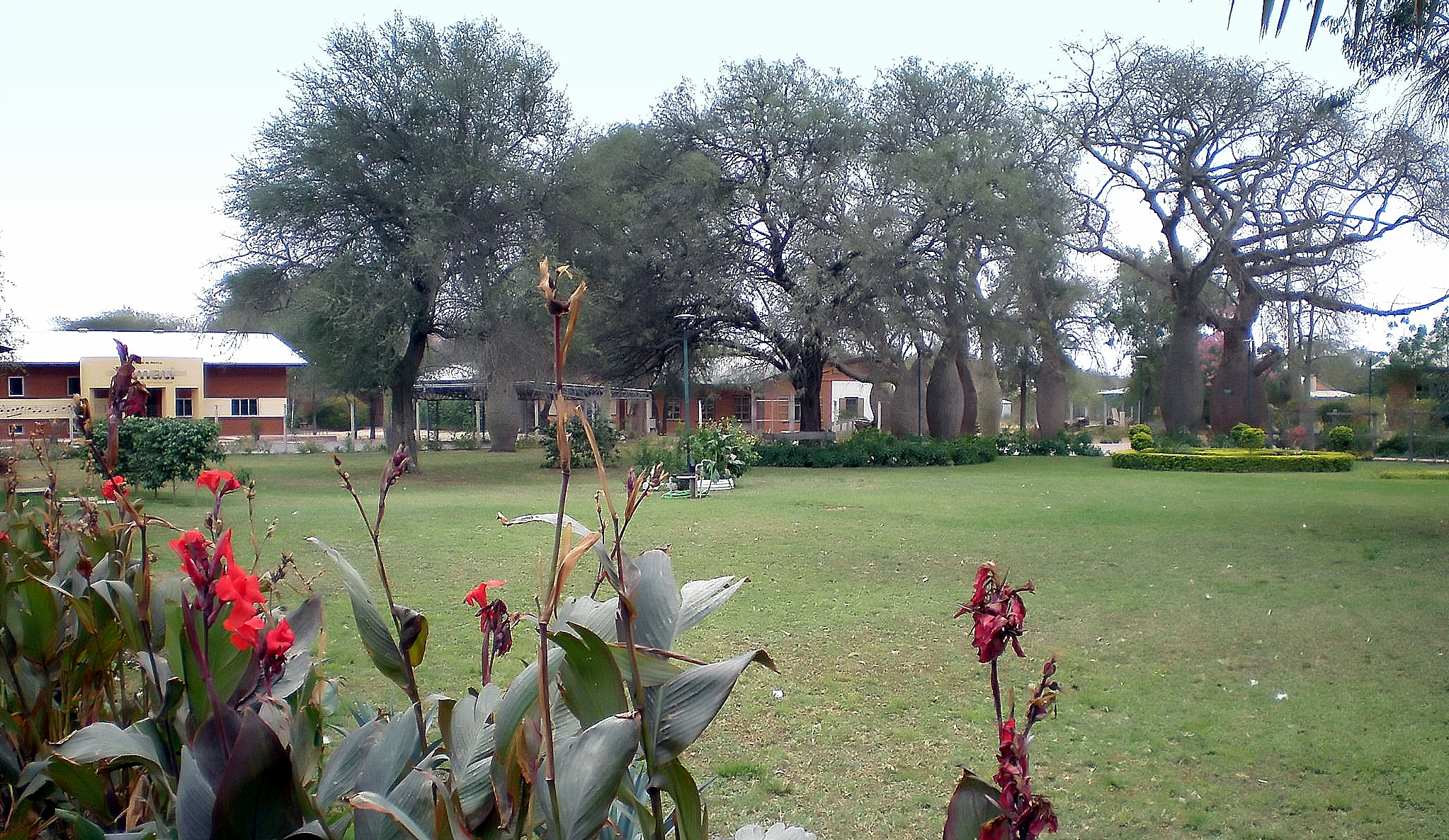 Parque de las Memorias in Filadelfia, Paraguay.